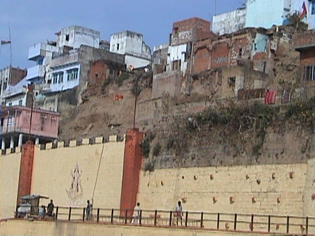 Hindu culture, have attributed supreme importance to the preservation of tradition Classical civilizations, and especially the Indian one, have attributed supreme importance to the preservation of tradition. Its central idea was that social institutions, scientific knowledge and technological applications need to use "heritage" as a "resource". Using contemporary language, we would say that ancient Indians considered, as social resources, both economic assets (like natural resources and their exploitation structure) and factors promoting social integration (like institutions for preserving knowledge and maintaining civil order). Ethics considered that what had been inherited should not be consumed, but should be handed over, possibly enriched, to successive generations. This was a moral imperative for all, except in the final life stage of sannyasa